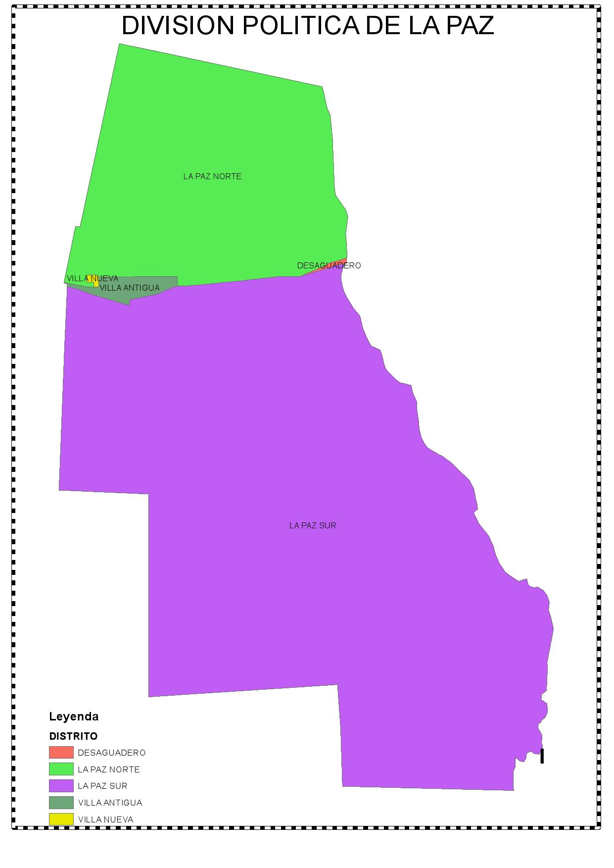 DIVISION POLITICA DE LA PAZ